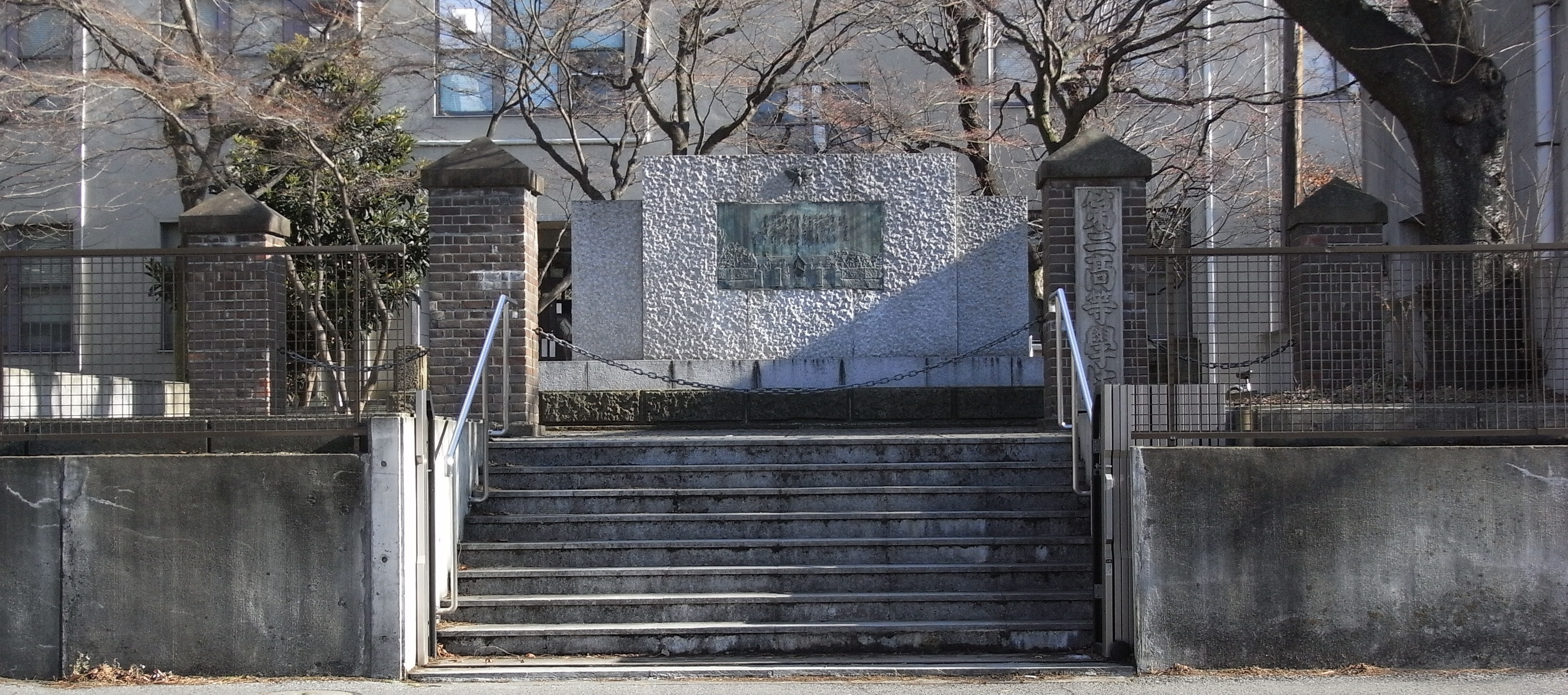 The gate and monument of the Second High School of Japan under old system. Katahira, Aoba ward, Sendai, Miyagi prefecture, Japan.